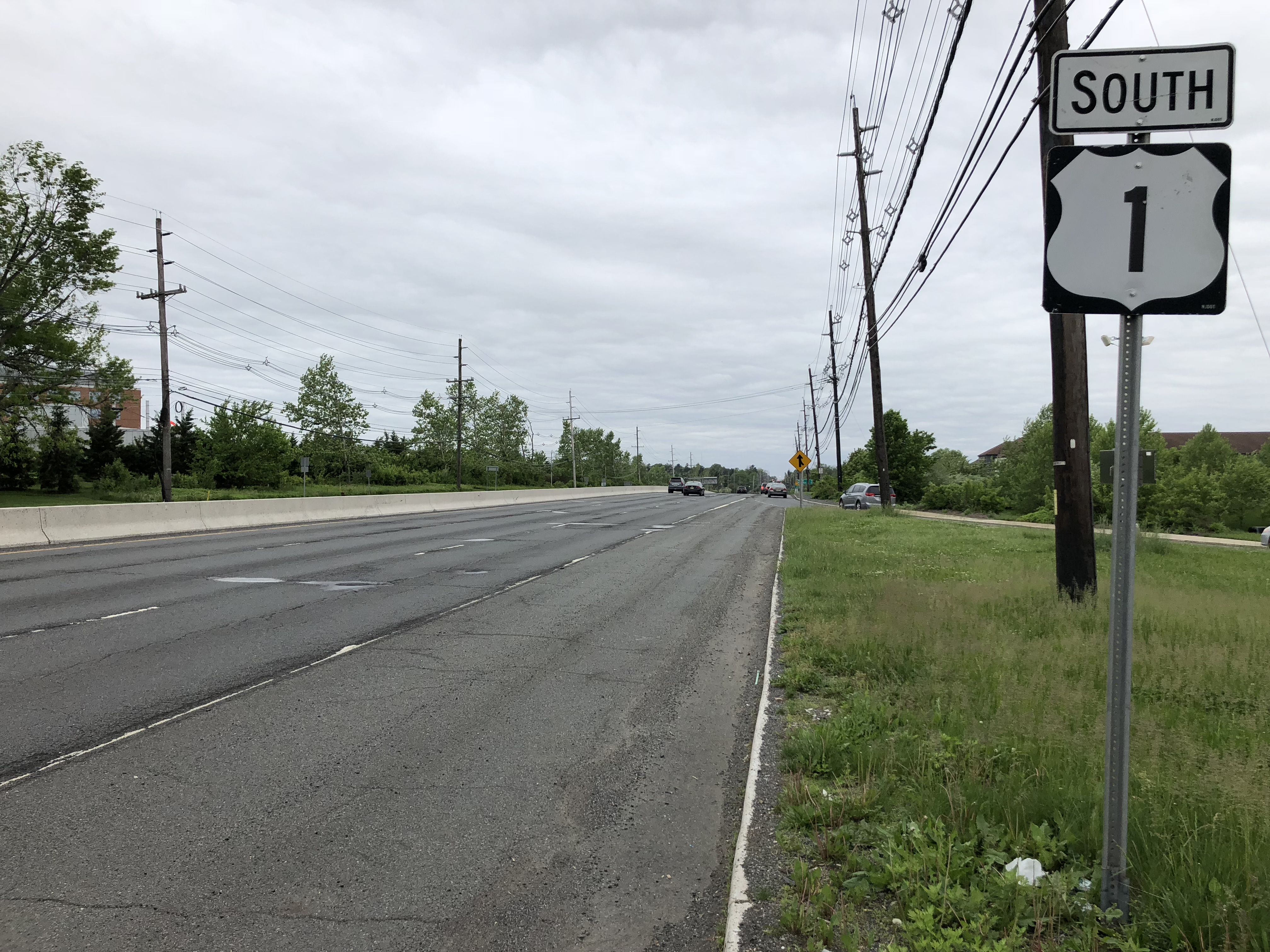 View south along U.S. Route 1 just south of Scudders Mill Road (Middlesex County Route 614) in Plainsboro Township, Middlesex County, New Jersey